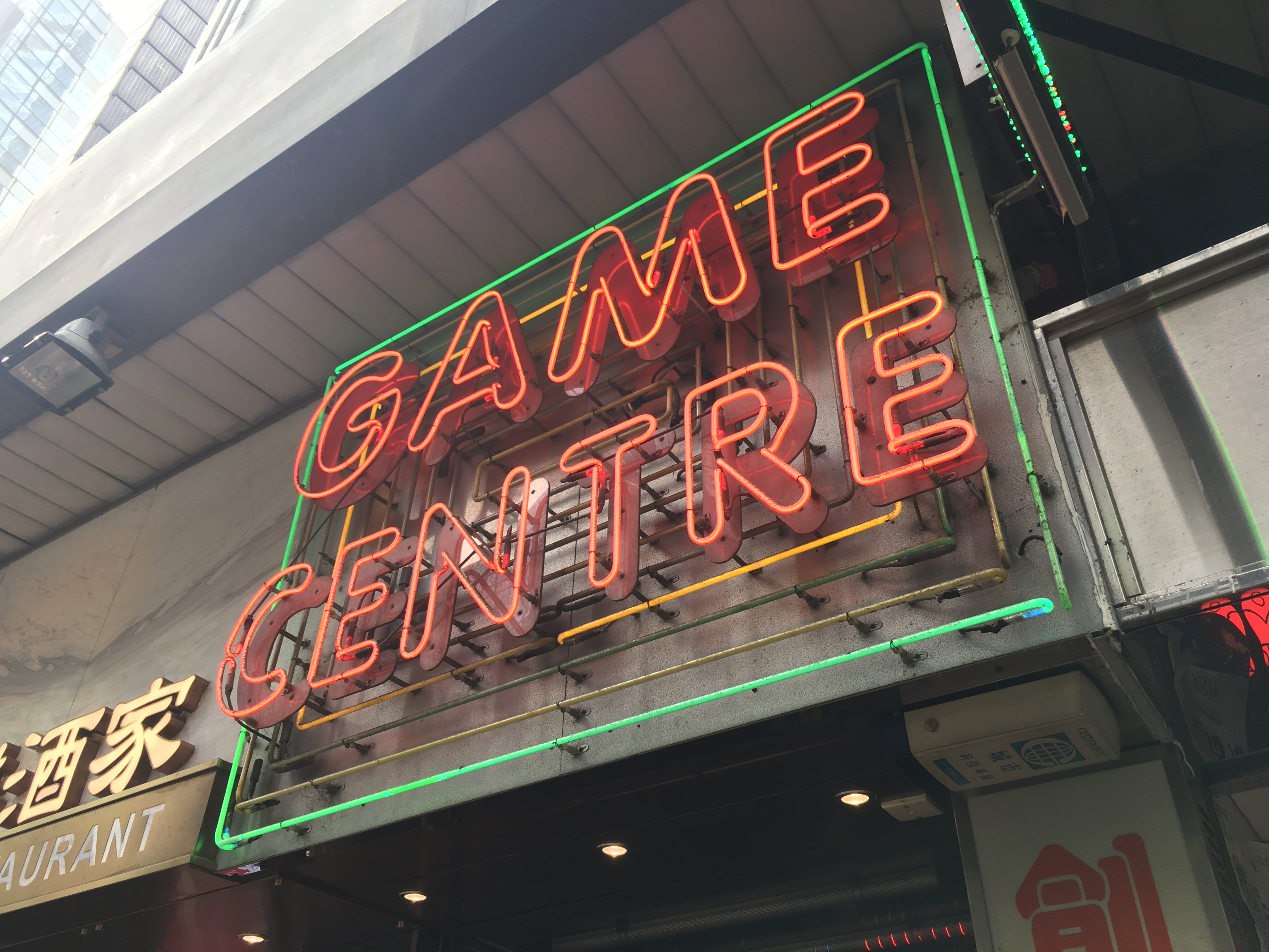 The neon sign of Chon Shing Game Centre in Jubilee Street, Central, Hong Kong